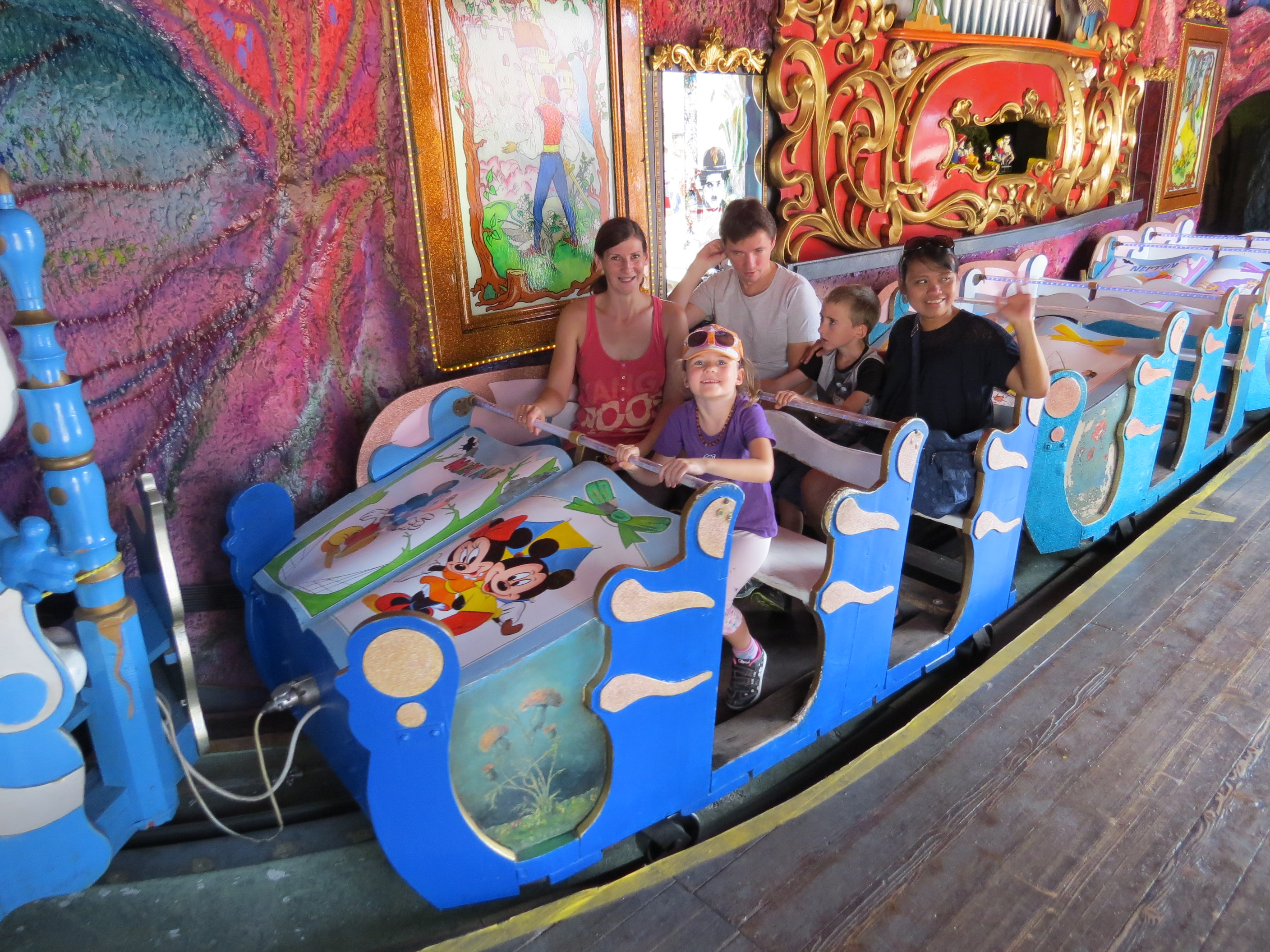 2017-08-27 Wurstelprater, Vienna